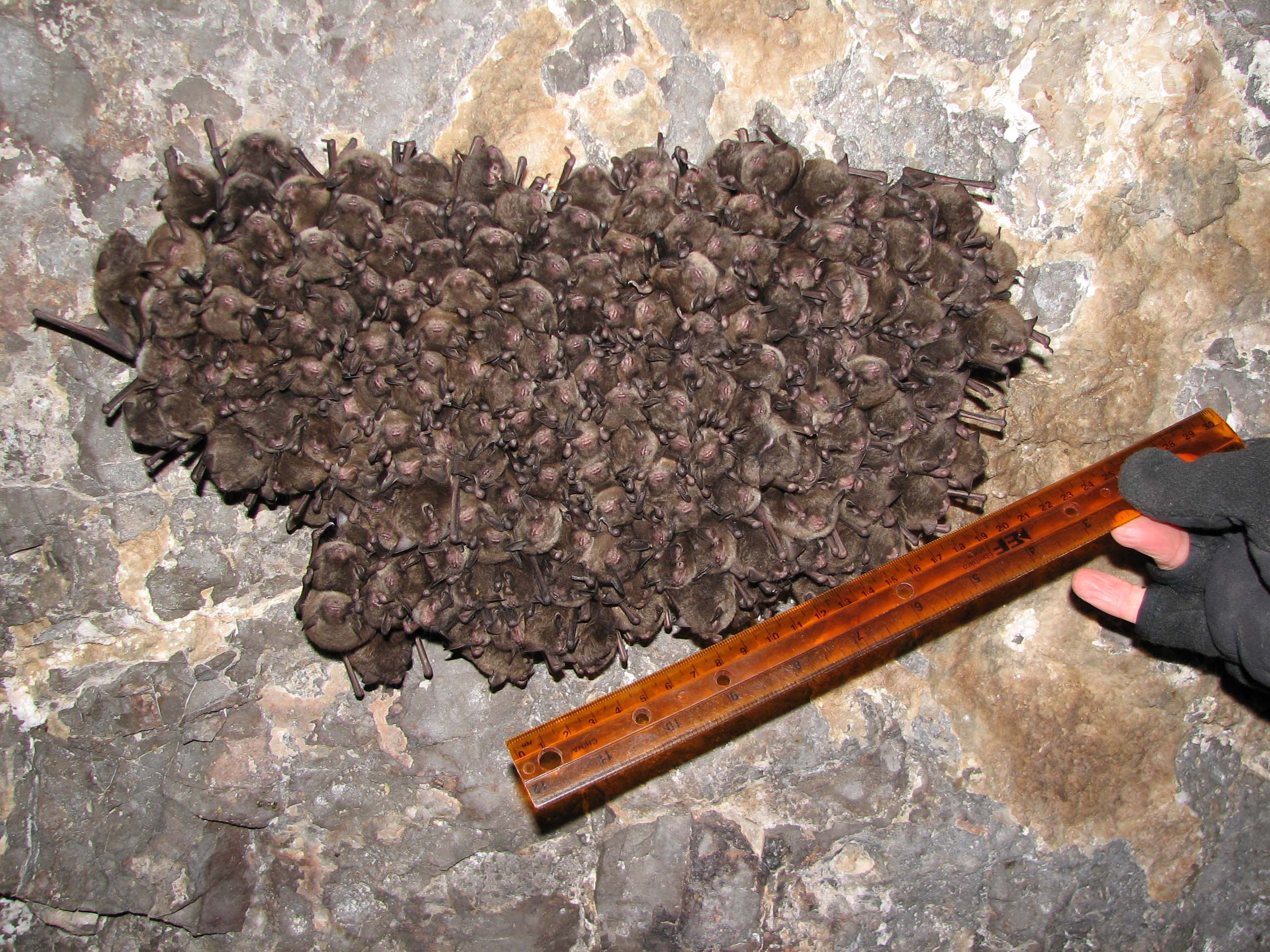 Credit: USFWS; Andrew King